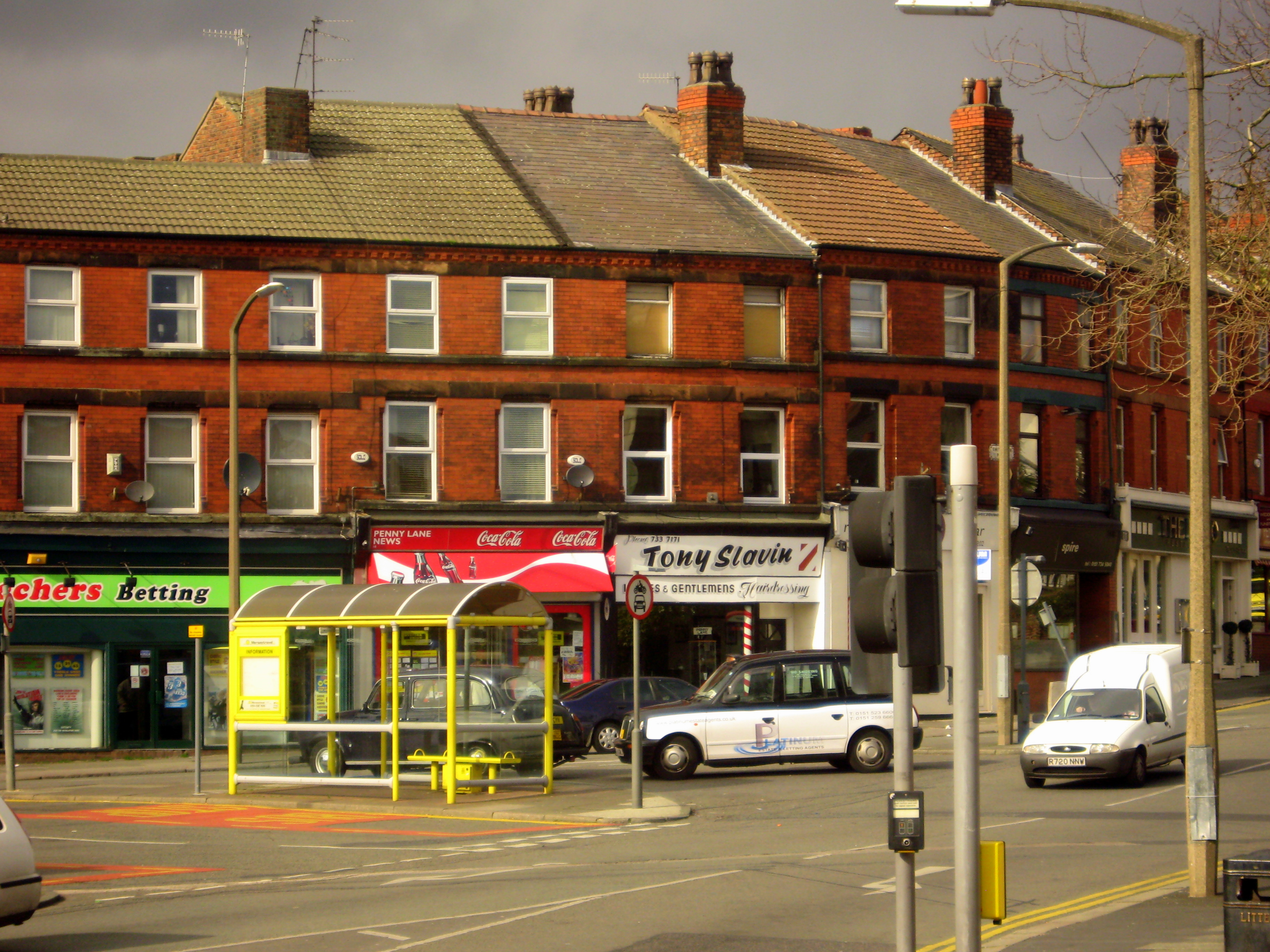 Penny Lane, Liverpool. Tony Slavin (the white building on the corner) is where the "barber showing photographs" worked. At that time it was Bioletti's.